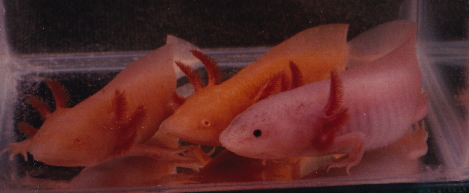 Animals are displaying colour traits left: double homozygote for leucistic and albino trait, centre albino, and right leucistic.